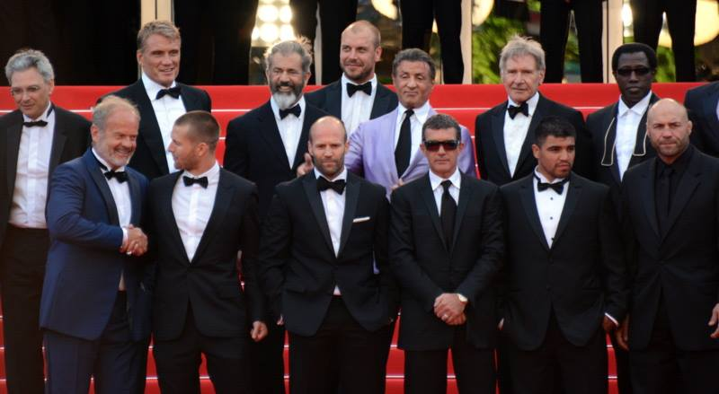 The cast of "The Expendables 3" at the Cannes Film Festival